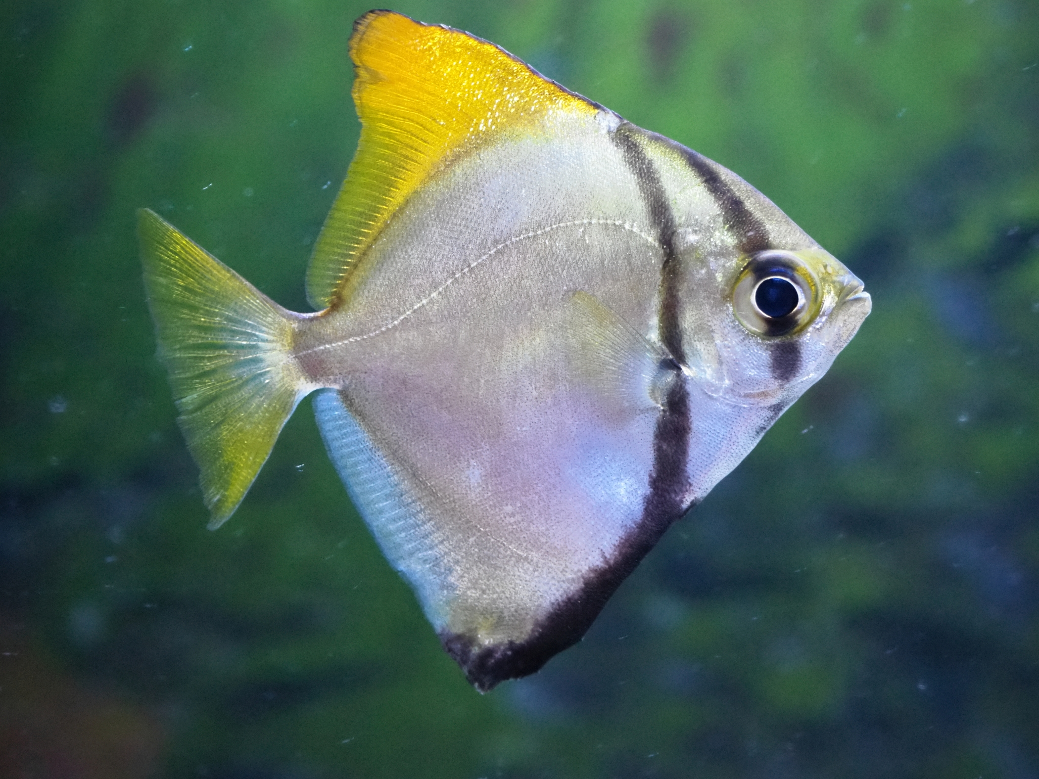 Commonly known as the silver moony, monodactylus argentus is a species of fish in the family Monodactylidae (moony fishes). The image shows a silver moony fish kept in an aquarium in Taiwan.